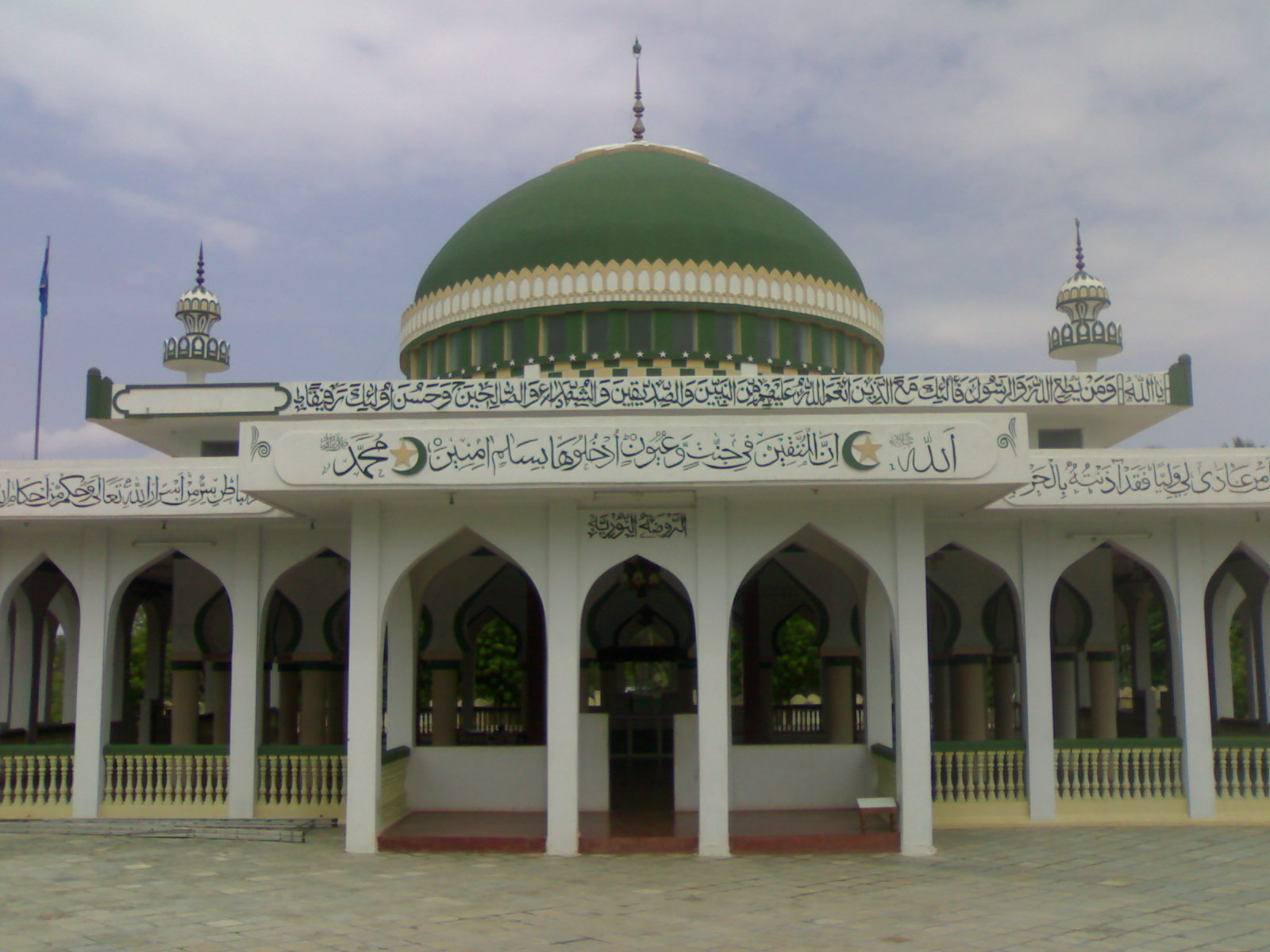 Photo of Darga shareef of Hazrat Noorishah jeelani